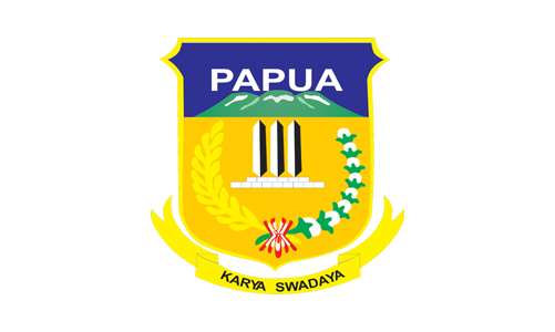 Flag of Papua, See legal regulation about the flag.